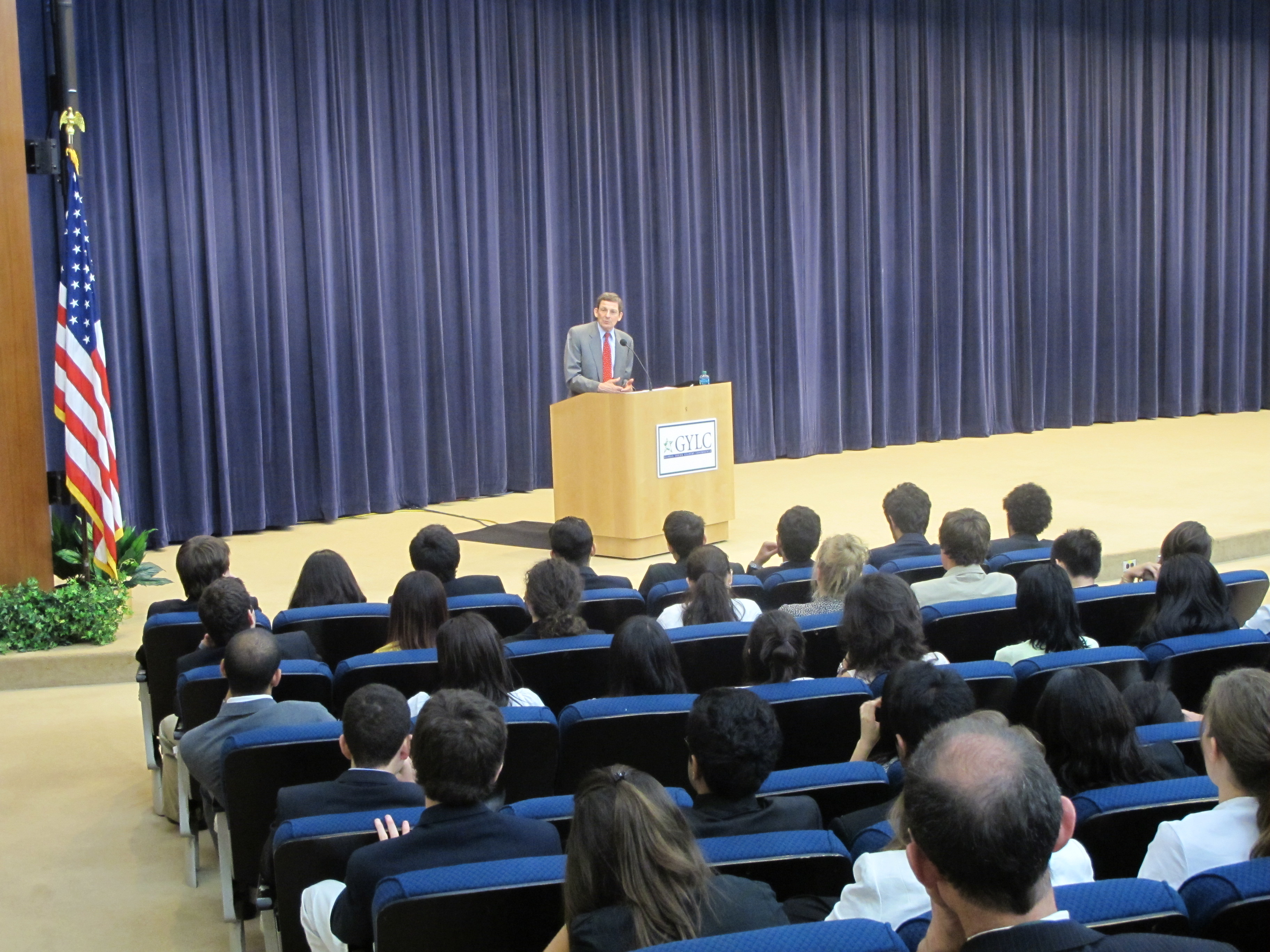 Special Representative for Afghanistan and Pakistan Marc Grossman addresses the students of the Global Young Leaders Conference at the U.S. Department of State in Washington, D.C., on July 6, 2011. [State Department photo/ Public Domain]